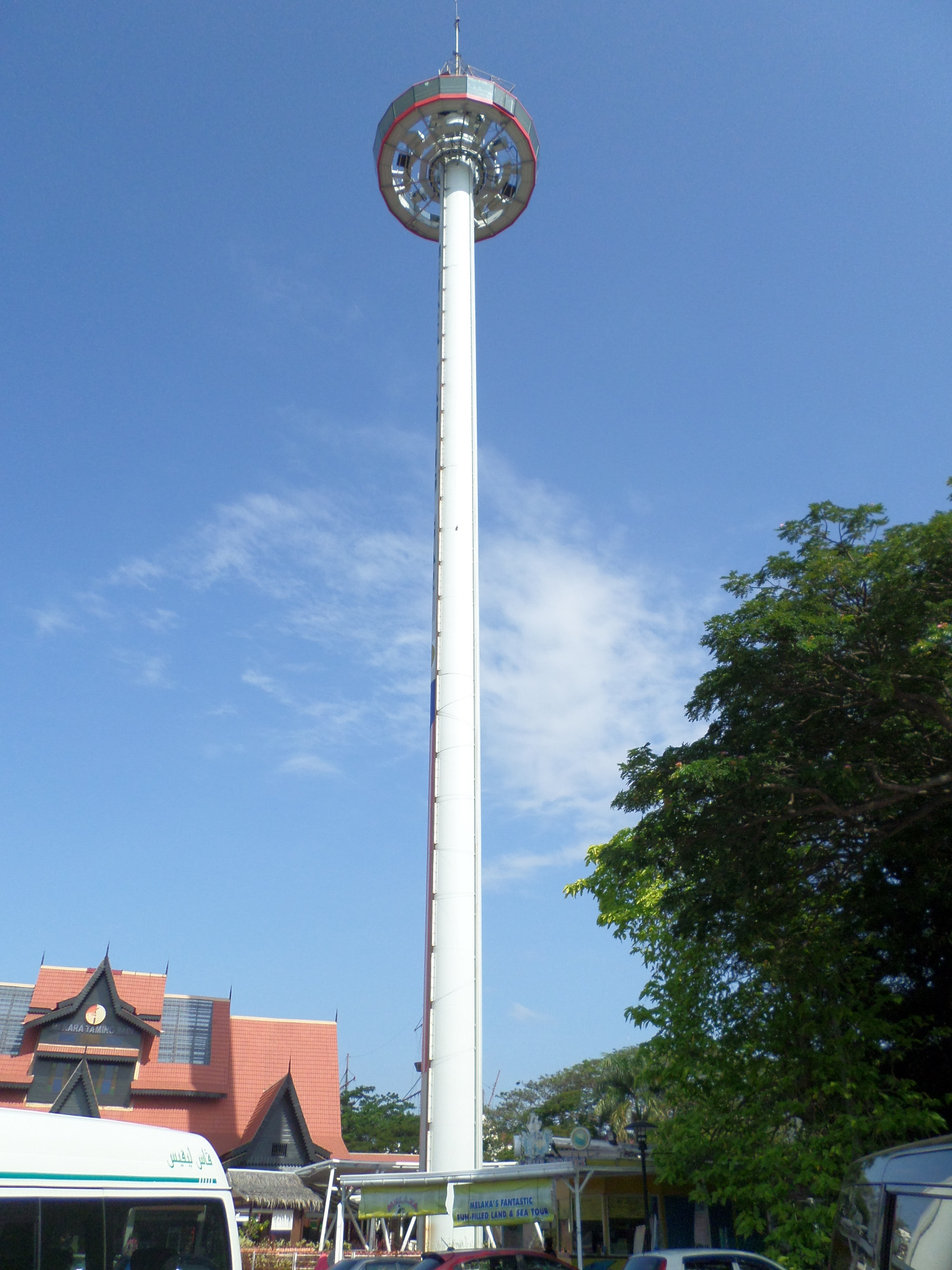 Taming Sari Tower, Central Malacca, Malacca, MalaysiaBahasa Melayu: Menara Taming Sari, Melaka Tengah, Melaka, Malaysia